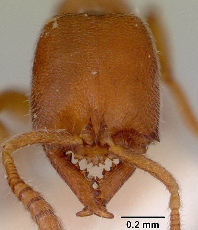 Head view of ant Amblyopone saundersi specimen casent0172249.